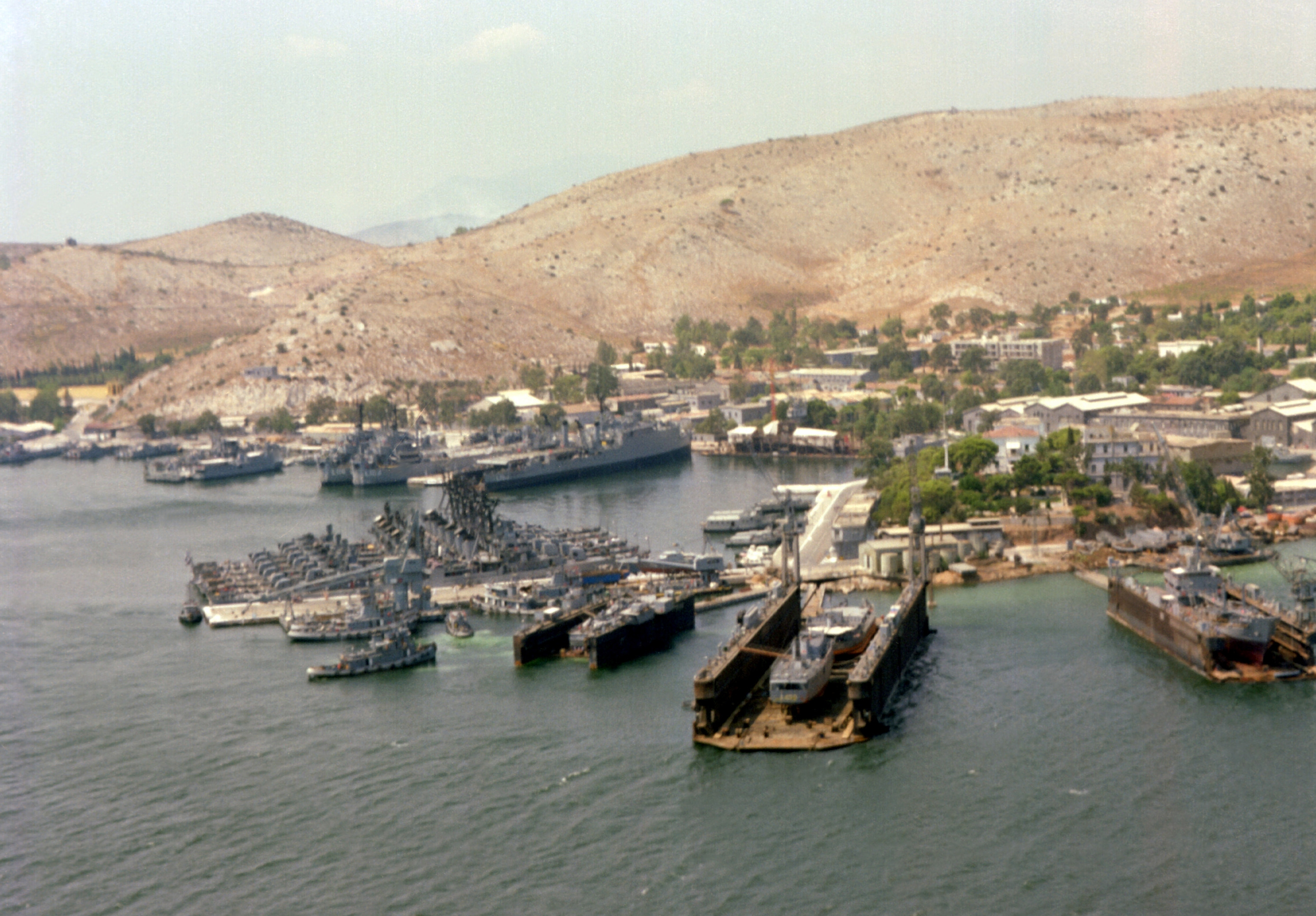 View of the Greek Salamis Naval Base in 1979. Visible among other ships are the six Greek Fletcher-class destroyers: Kimon (ex USS Ringgold (DD-500), Nearchos (USS Wadsworth (DD-516), Sfendoni (USS Aulick (DD-569), Aspis (USS Connor (DD-582), Lonchi (USS Hall (DD-583), and Velos (USS Charrette (DD-581). Also visible are the landing ships Nafkratoussa (USS Fort Mandan (LSD-21), Oinoussai (USS Terrell County (LST-1157), and Kos (USS Whitfield County (LST-1169).